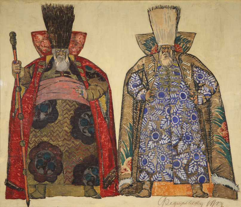 Fedor Fedorovsky, Costume design for two outfits of Prince Khovansky in the opera Khovanschina, 1912.Konstantinovsky Foundation, Saint Petersburg